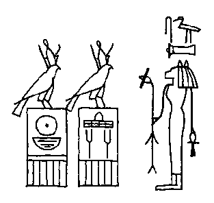 Nebra and Hotepsekhmwy serekhs